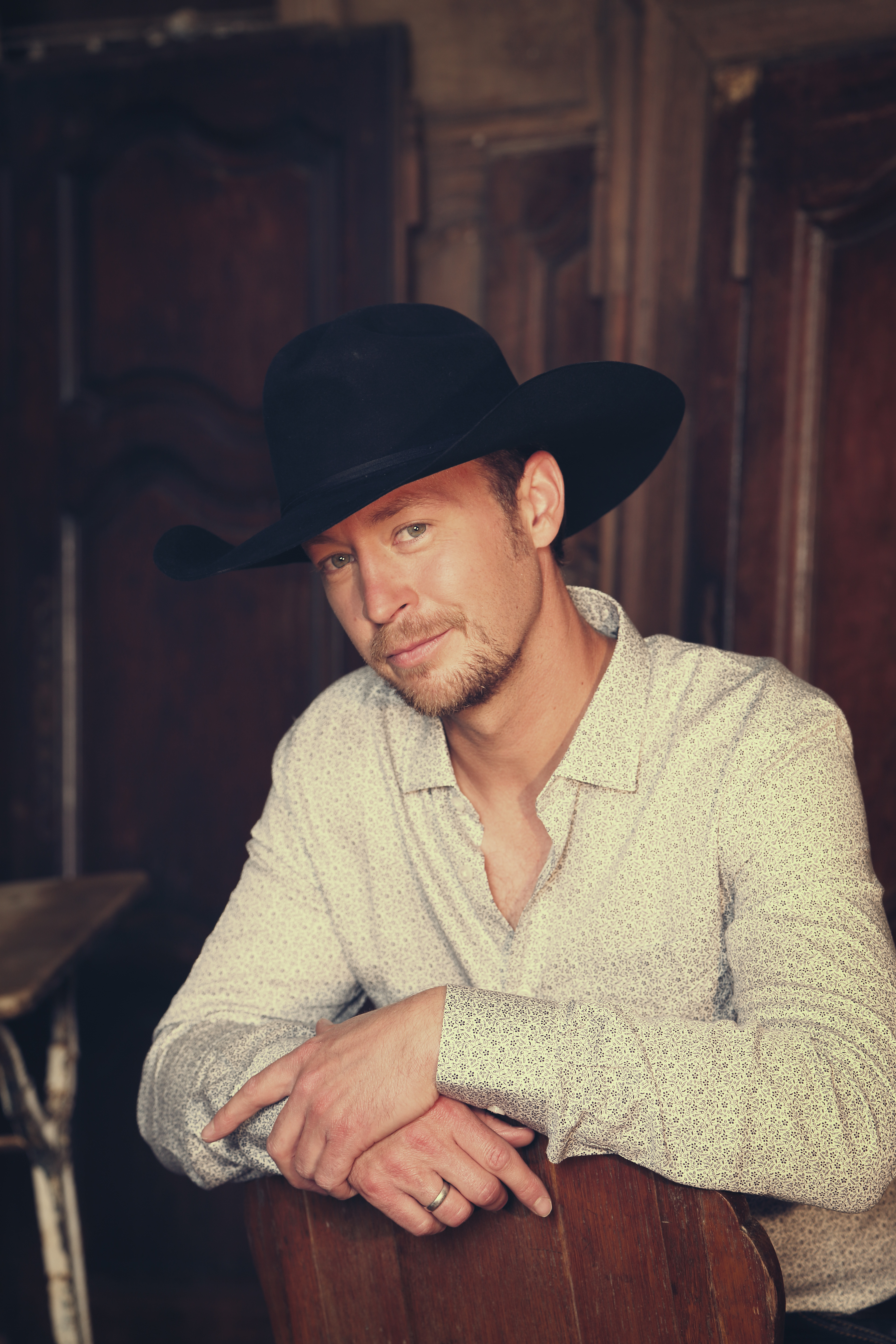 Publicity photo of Paul Brandt, photographed by Todd Korol.